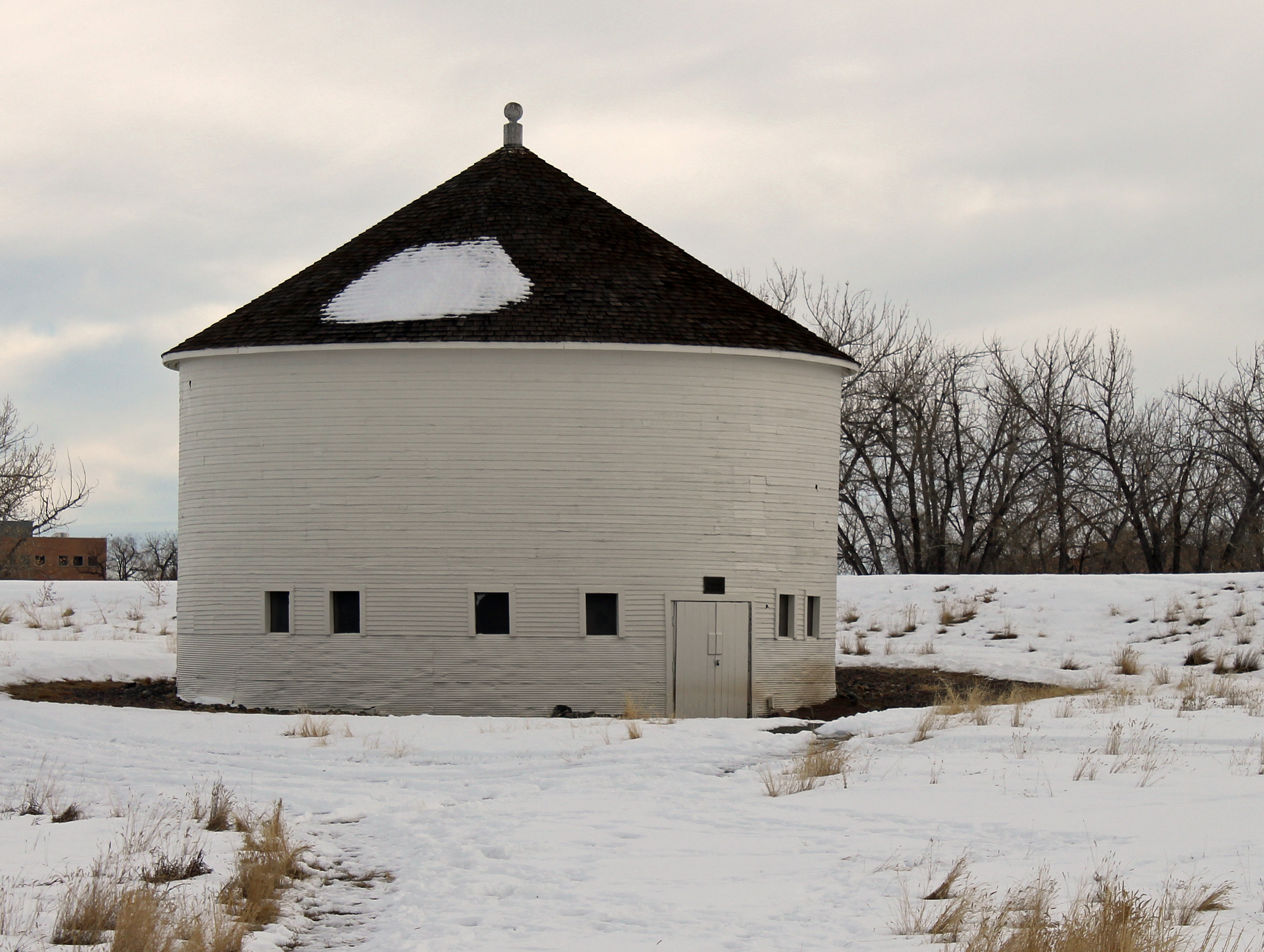 The DeLaney Barn, a historic round barn, located at 200 South Chambers Road in Aurora, Colorado. The barn is listed on the National Register of Historic Places.